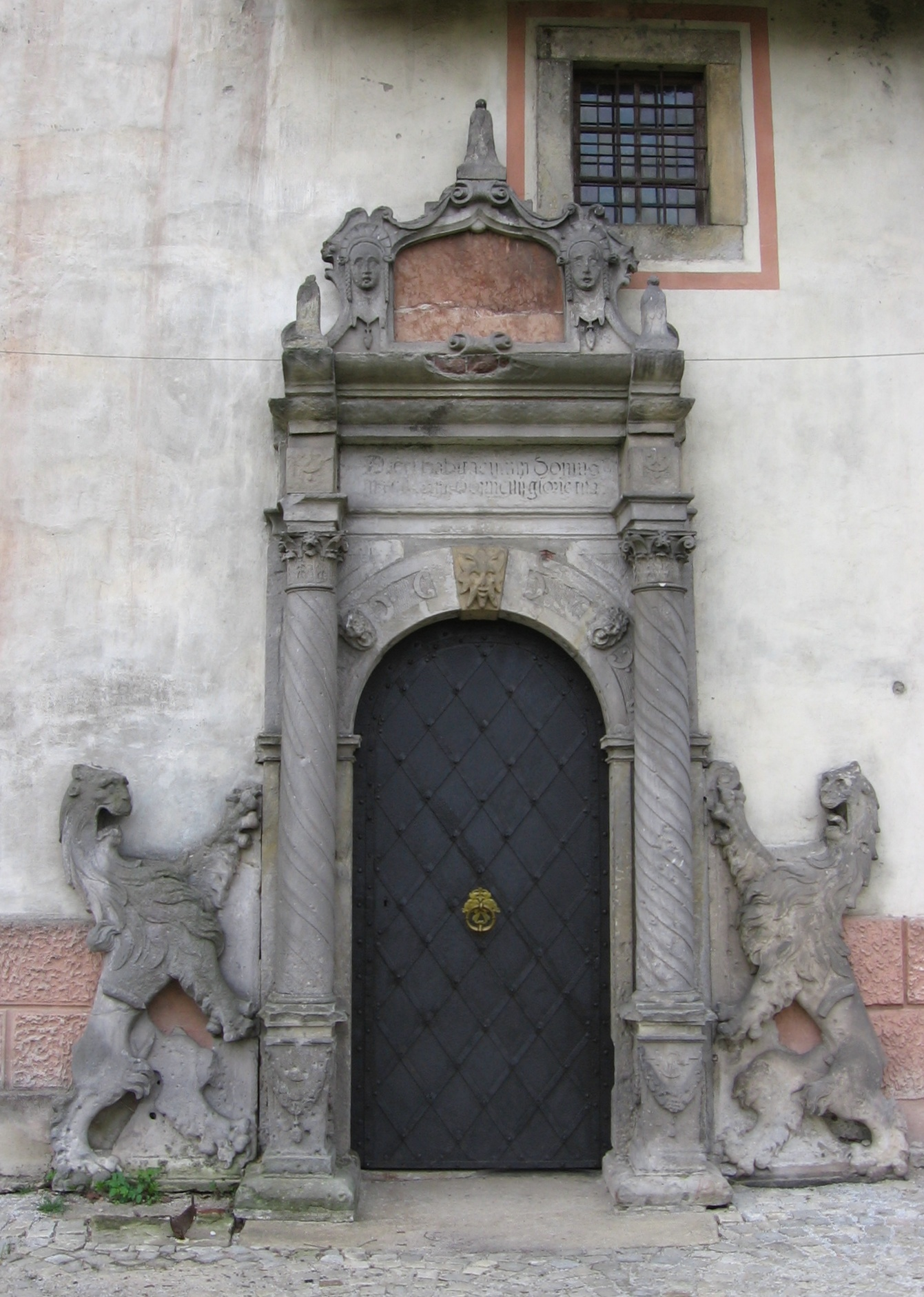 Entrance (north) to The Trinity Church in Żórawina near Wrocław, Lower Silesia, Poland.